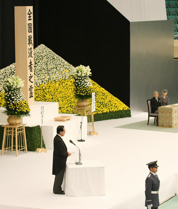 Yasuo Fukuda, Prime Minister, addressed at the Memorial Ceremony for the War Dead at Nippon Budokan in Chiyoda Ward, Tōkyō Metropolis on August 15, 2008.